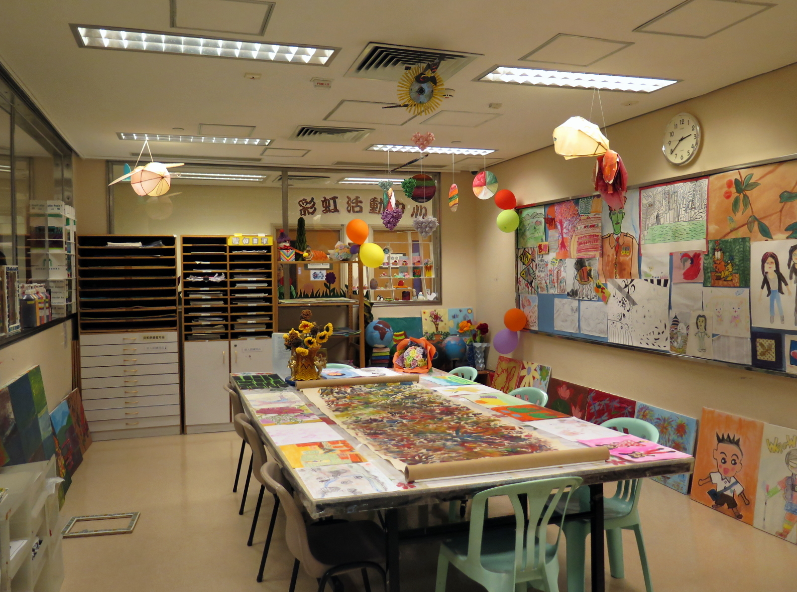 Castle Peak Hospital Art Studio